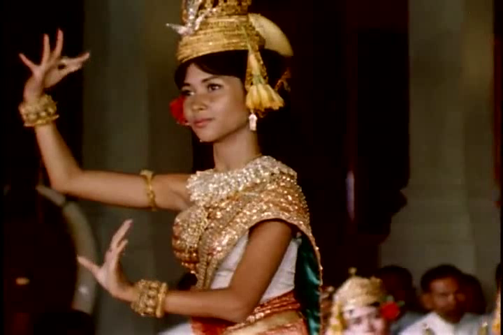 A snapshot from a film of Princess Buppha Devi dancing. This excerpt was pulled from a video of the Royal Ballet of Cambodia posted on 's Youtube channel. The U.S. National Archives also has a clip and mentions it was created by the United States Information Agency.